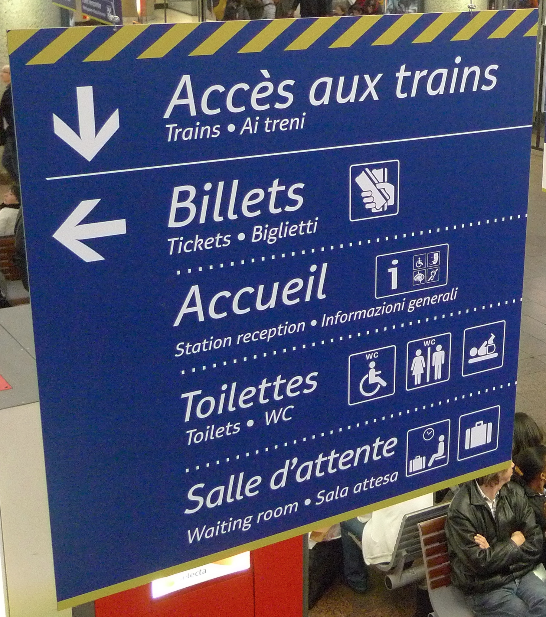 Cropped version of by Jean-Louis Zimmermann on signage using the Achemine typeface.